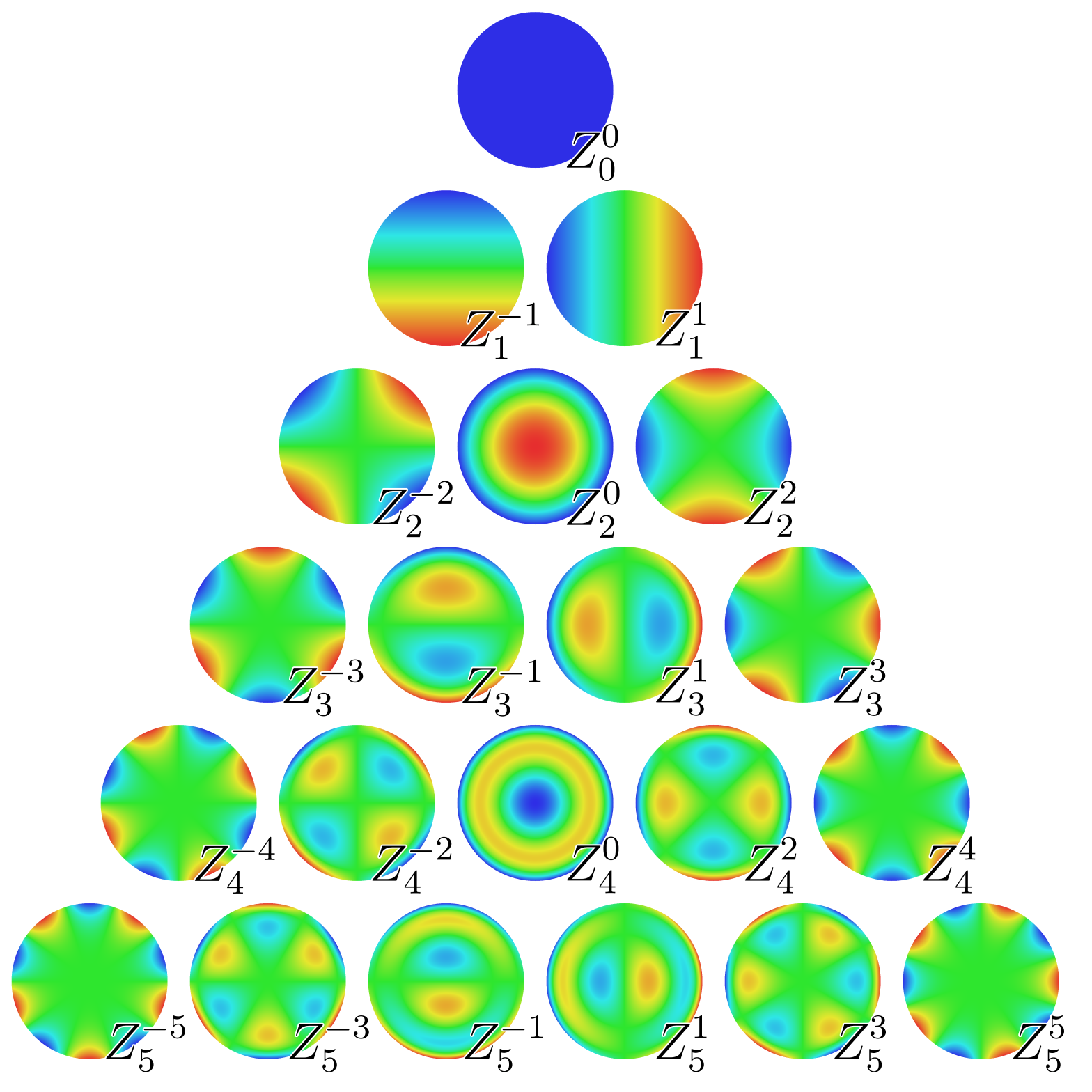 The Zernike_polynomials values